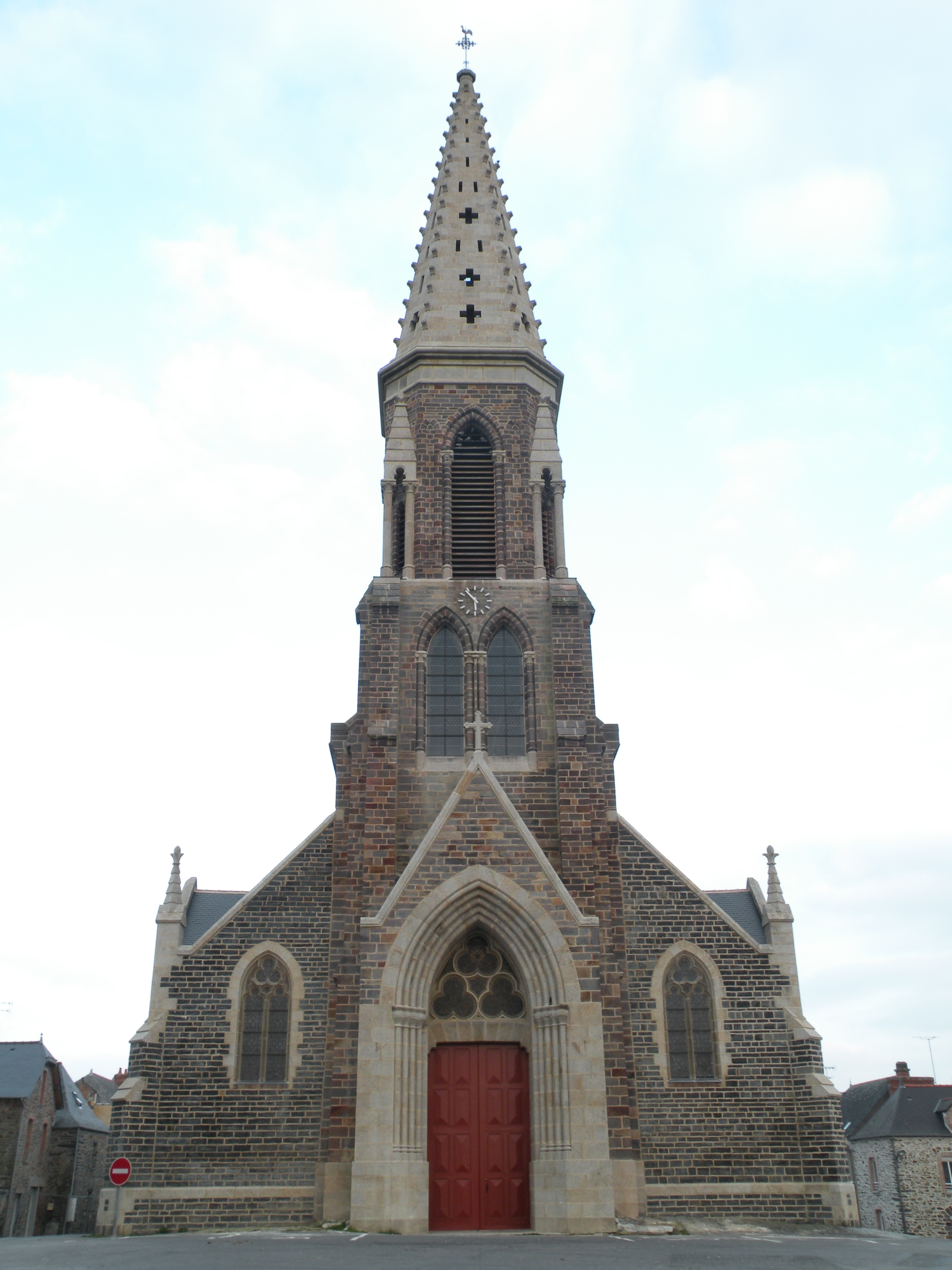 Saint-Abdon-et-Saint-Sennen church of Messac, Ille-et-Vilaine